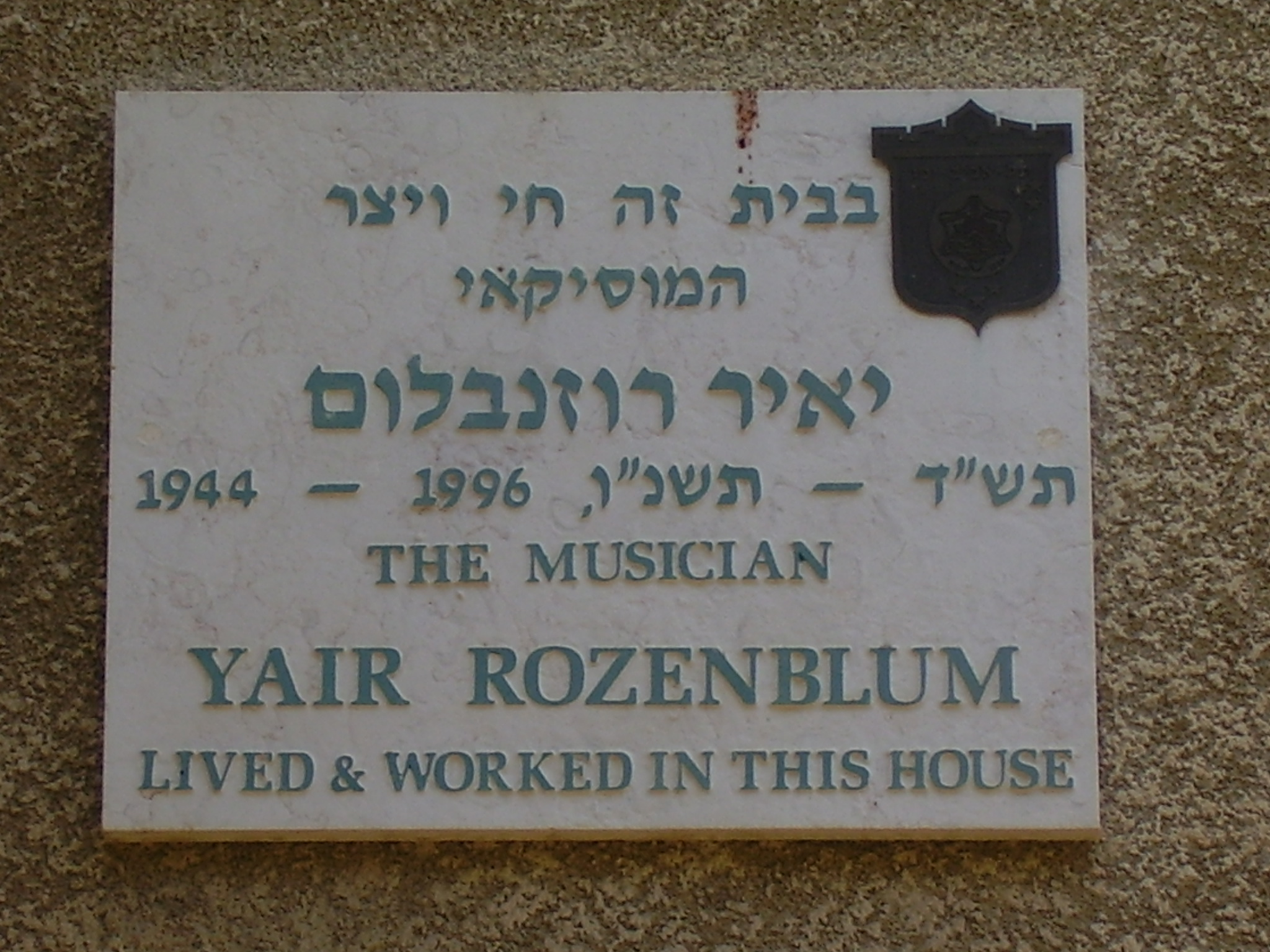 memorial plate in the composer yair rosenblum residence in tel aviv